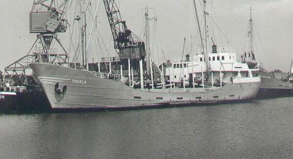 Thekla loading timber around the Baltic sea